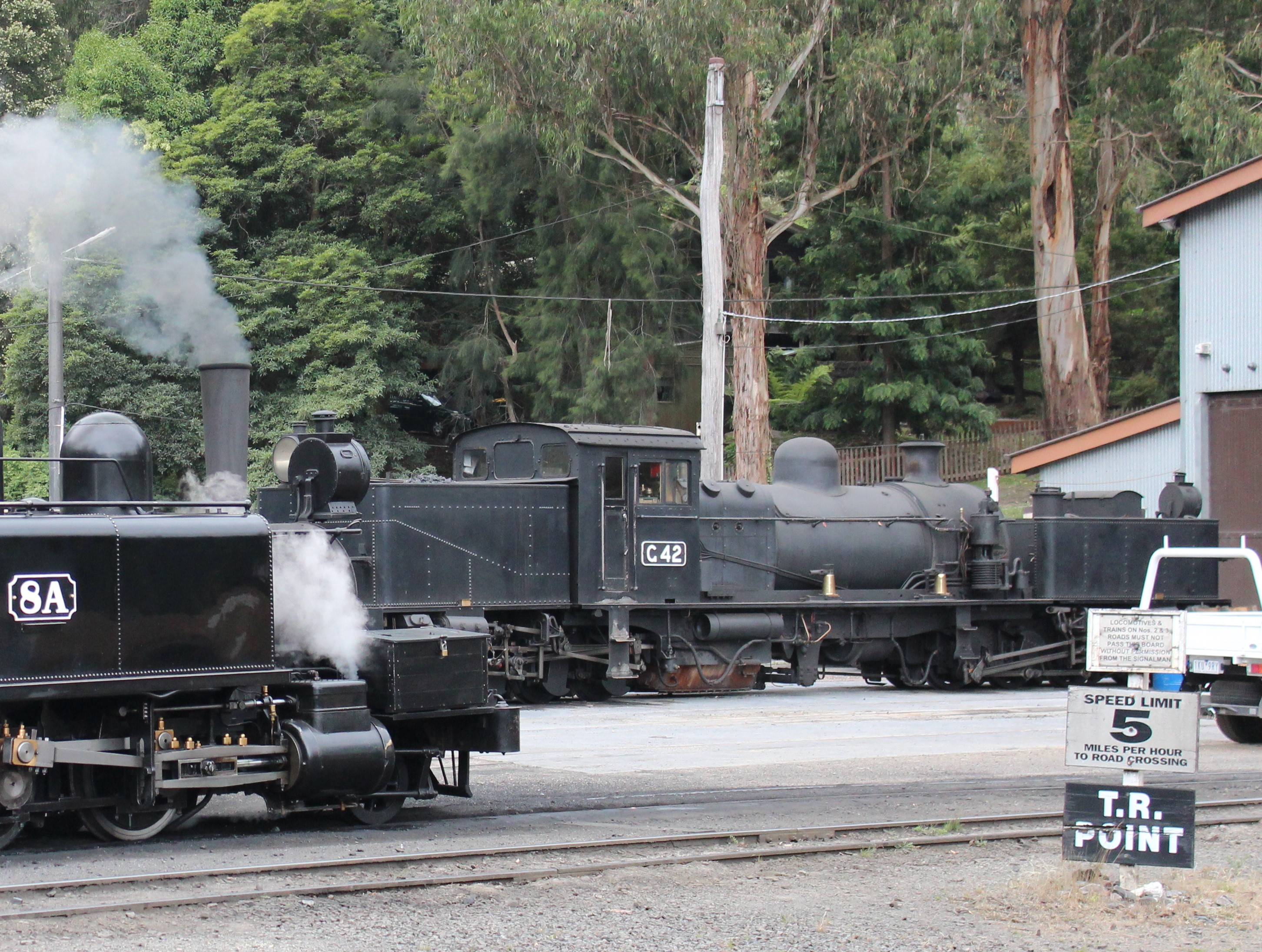 G42 Stabled at Belgrave with 8A January 2018